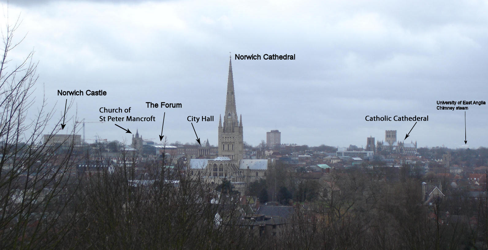 Norwich UK city skyline, taken from Mousehold Heath, February 2004 by me Martin Richards